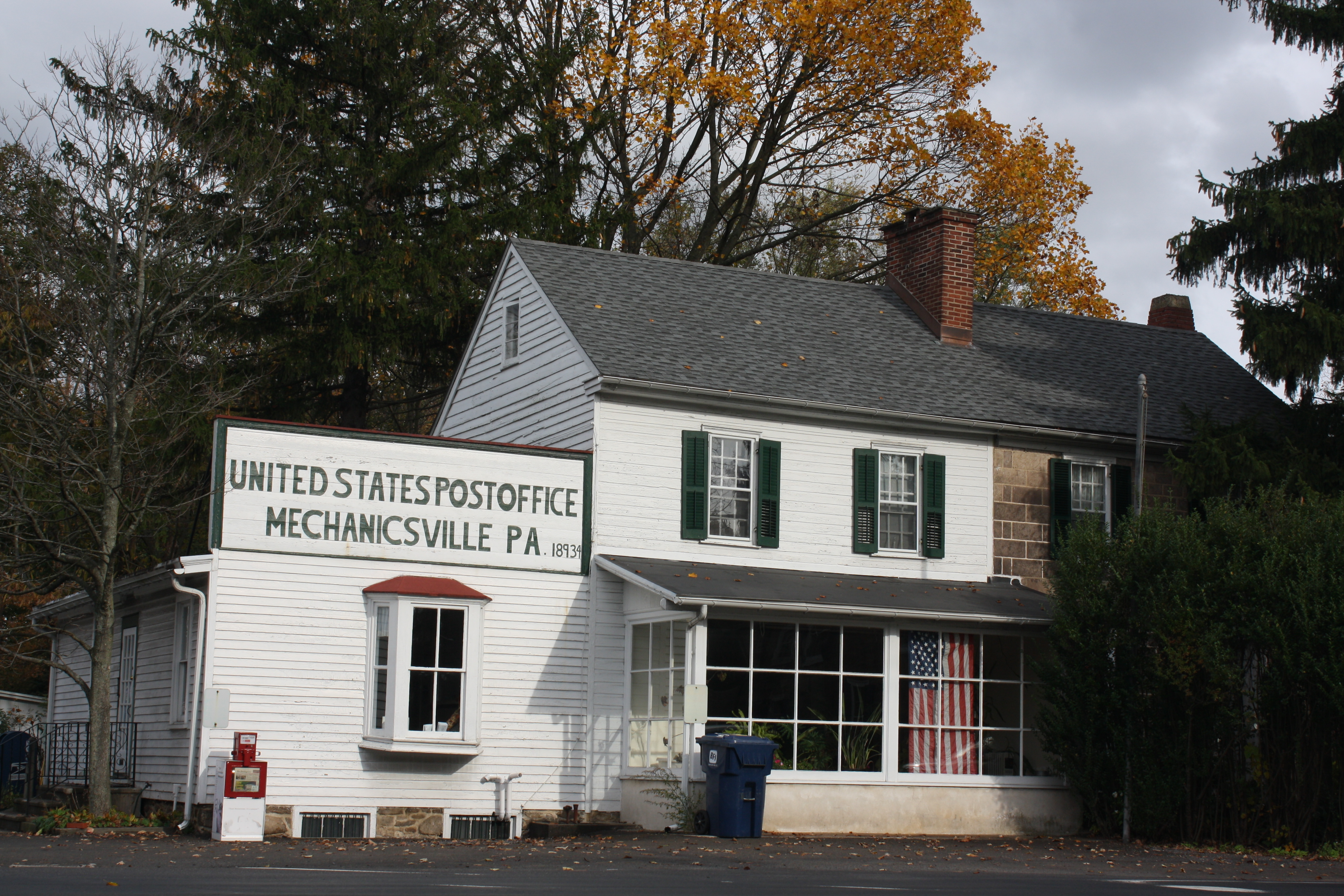 Mechanicsville Village Historic District, also known as Fenton's Corner, New-Work, and Halifax, is a national historic district located at Mechanicsville, Buckingham Township, Bucks County, Pennsylvania. Object location40° 20′ 40″ N, 75° 04′ 36″ W